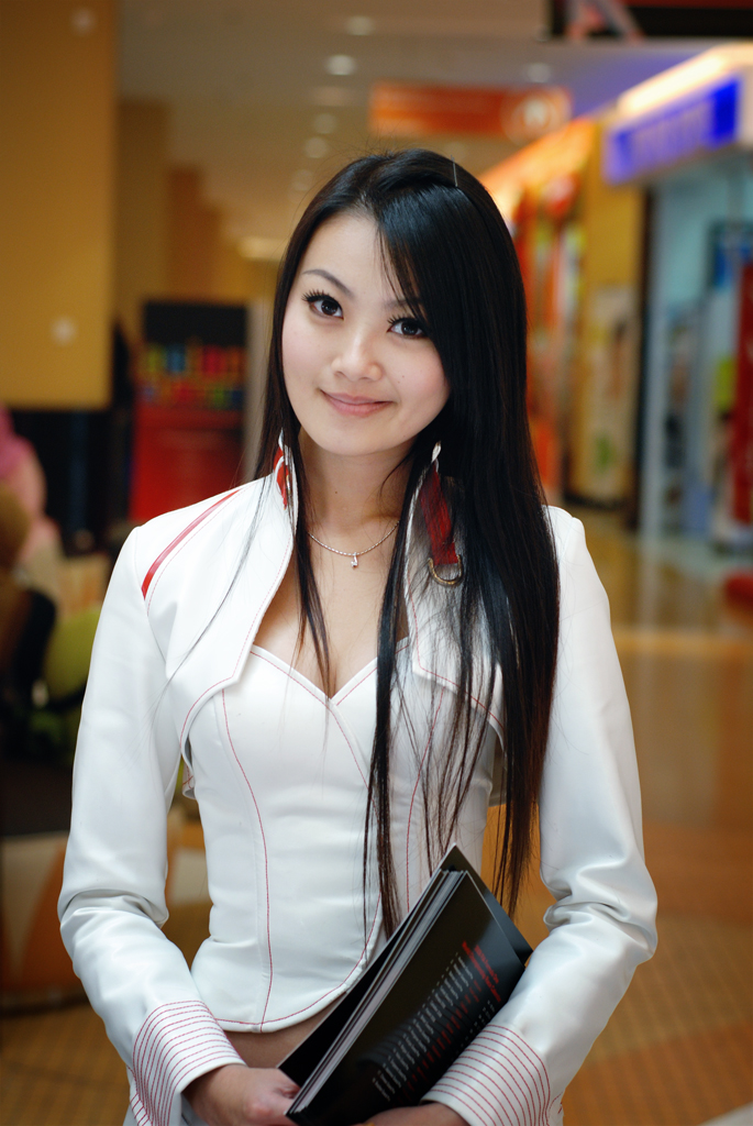 Honda F1 Roadshow 2008 Location: Sunway Pyramid (Malaysia) Model: Franklene Camera: Nikon D80 w/50mm lens, 1/160t f/2.5, ISO 400 Software: Adobe Photoshop CS 3 Nguyen Thanh Lam